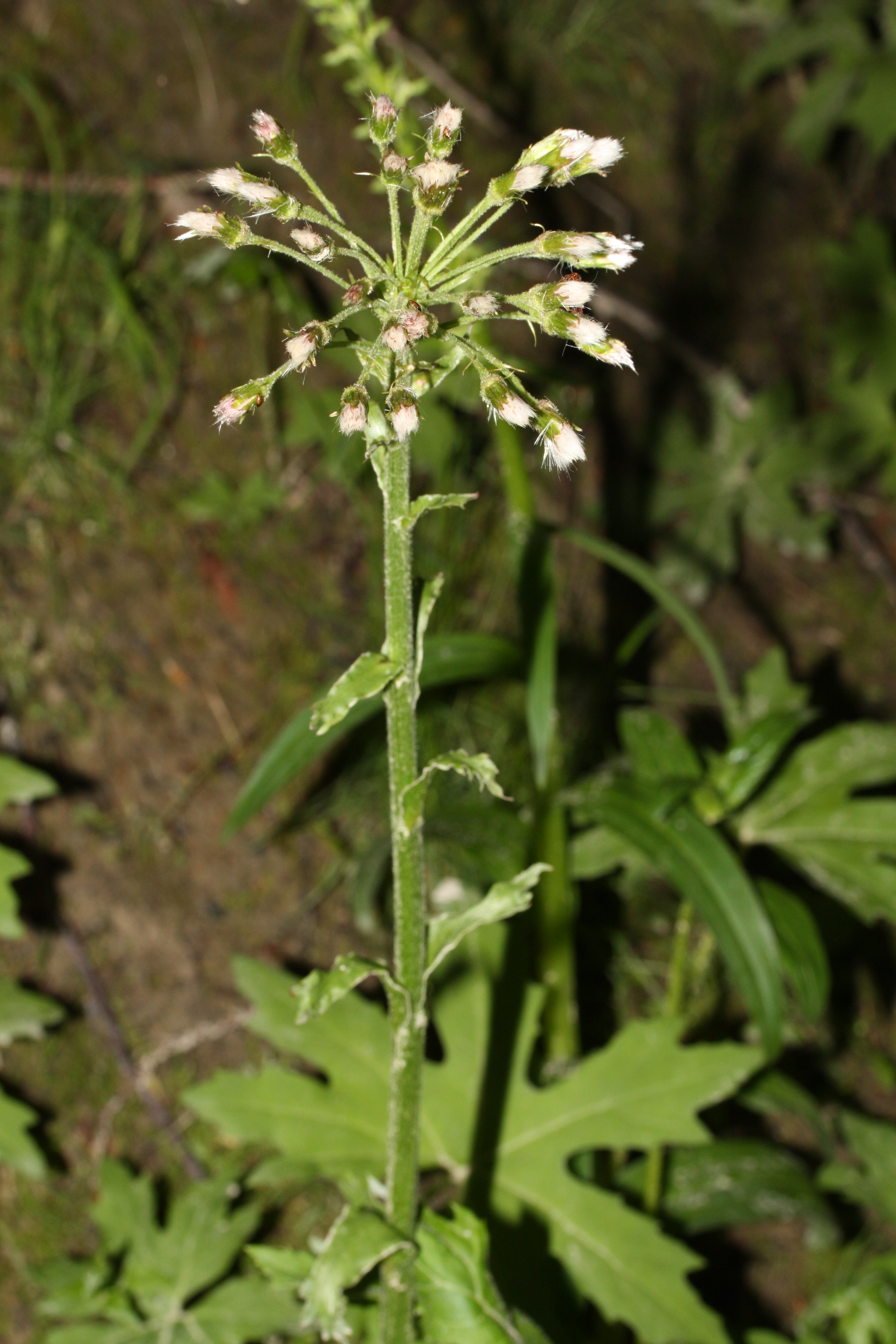 Sweet Coltsfoot, Alpine or Arctic Butterbur